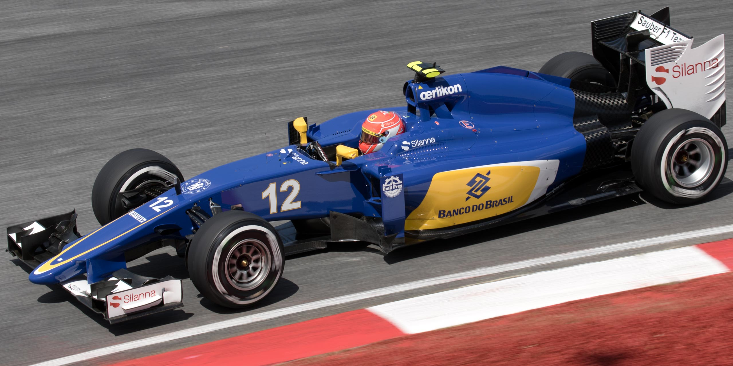 Formula One 2015 Rd.2 Malaysian GP: Felipe Nasr (Sauber)